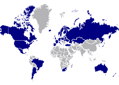 Governments supporting India's NSG membership